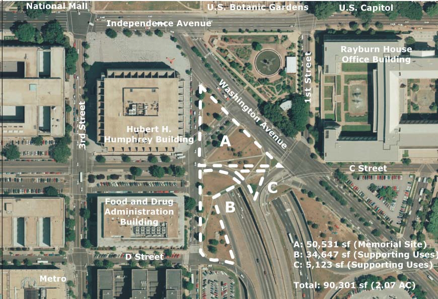 Site of the American Veterans Disabled for Life Memorial in Washington, D.C., in the United States. Three parcels of land, listed in the photo as A, B, and C, where taken for use by the memorial.